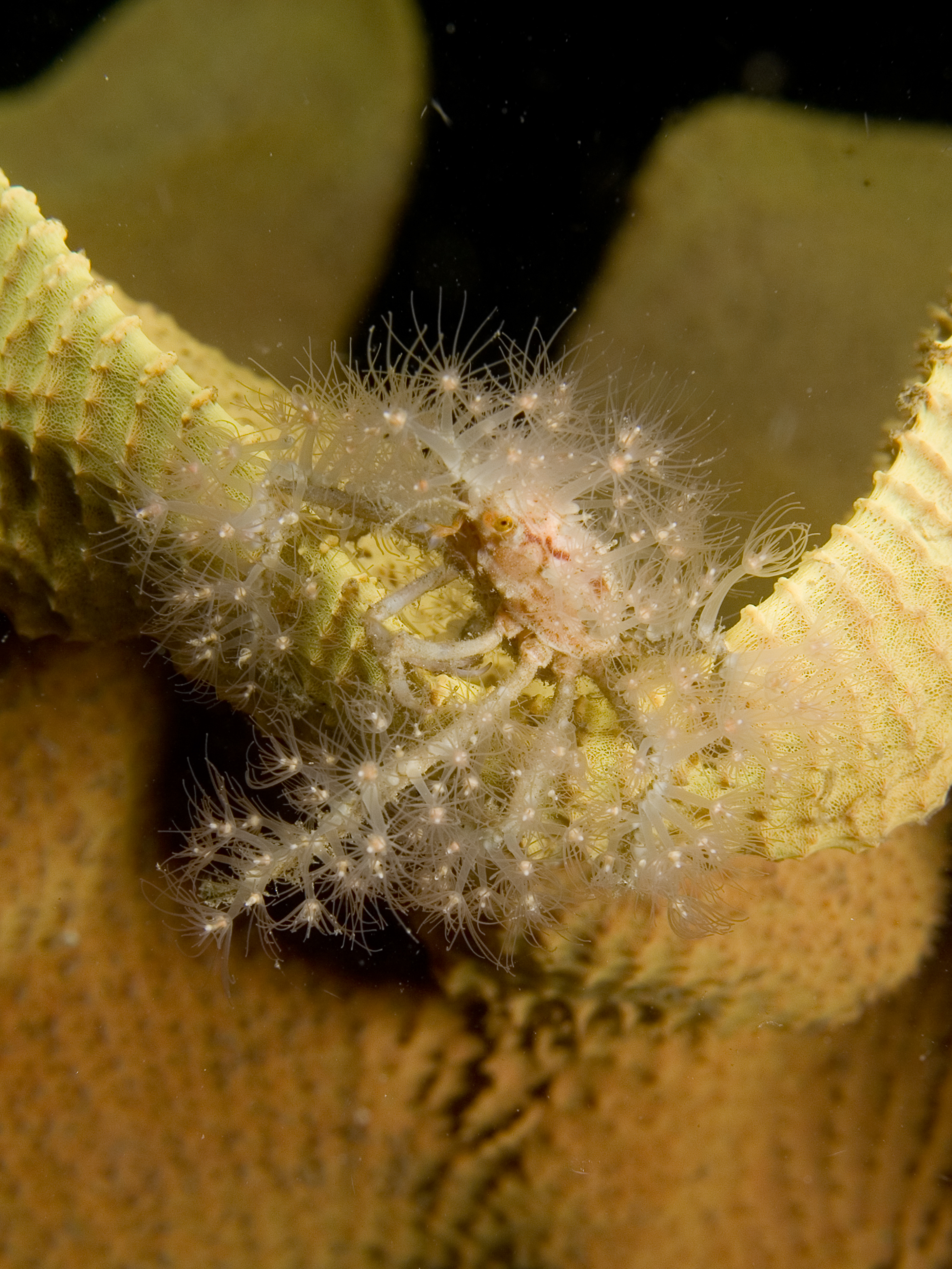 Decorator crab (Achaeus spinosus ?) covered in hydropolypes on Ianthella basta (Elephant ear sponge). This crab is using hydropolypes to cover its shell in order to provide protection from predators. The crab benefits from the hydropolype's sting while the hydropolypes benefit from the crab's mobility allowing it to feed in a larger area.